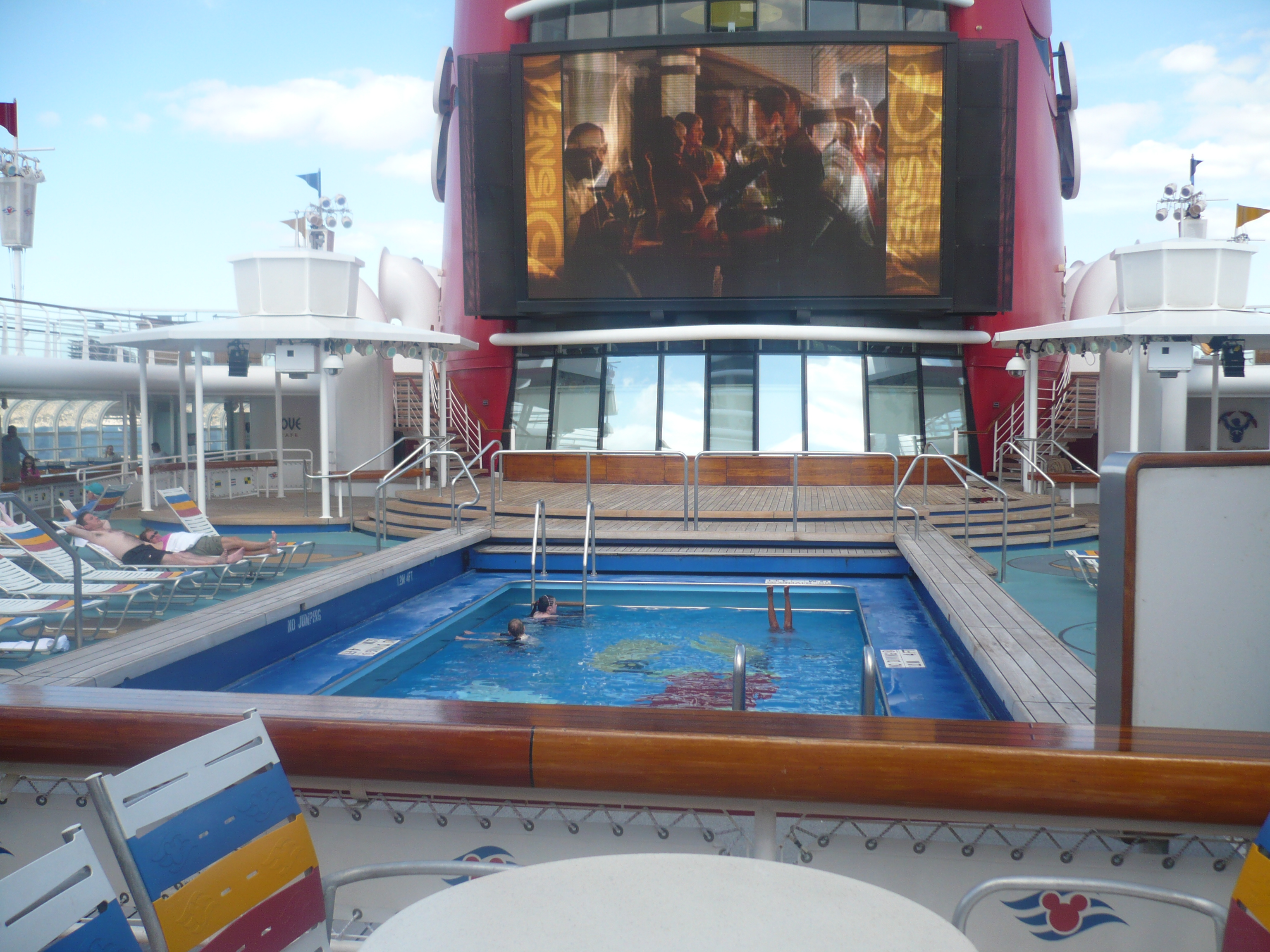 The family pool of the Disney Magic with a giant screen installed in 2007.